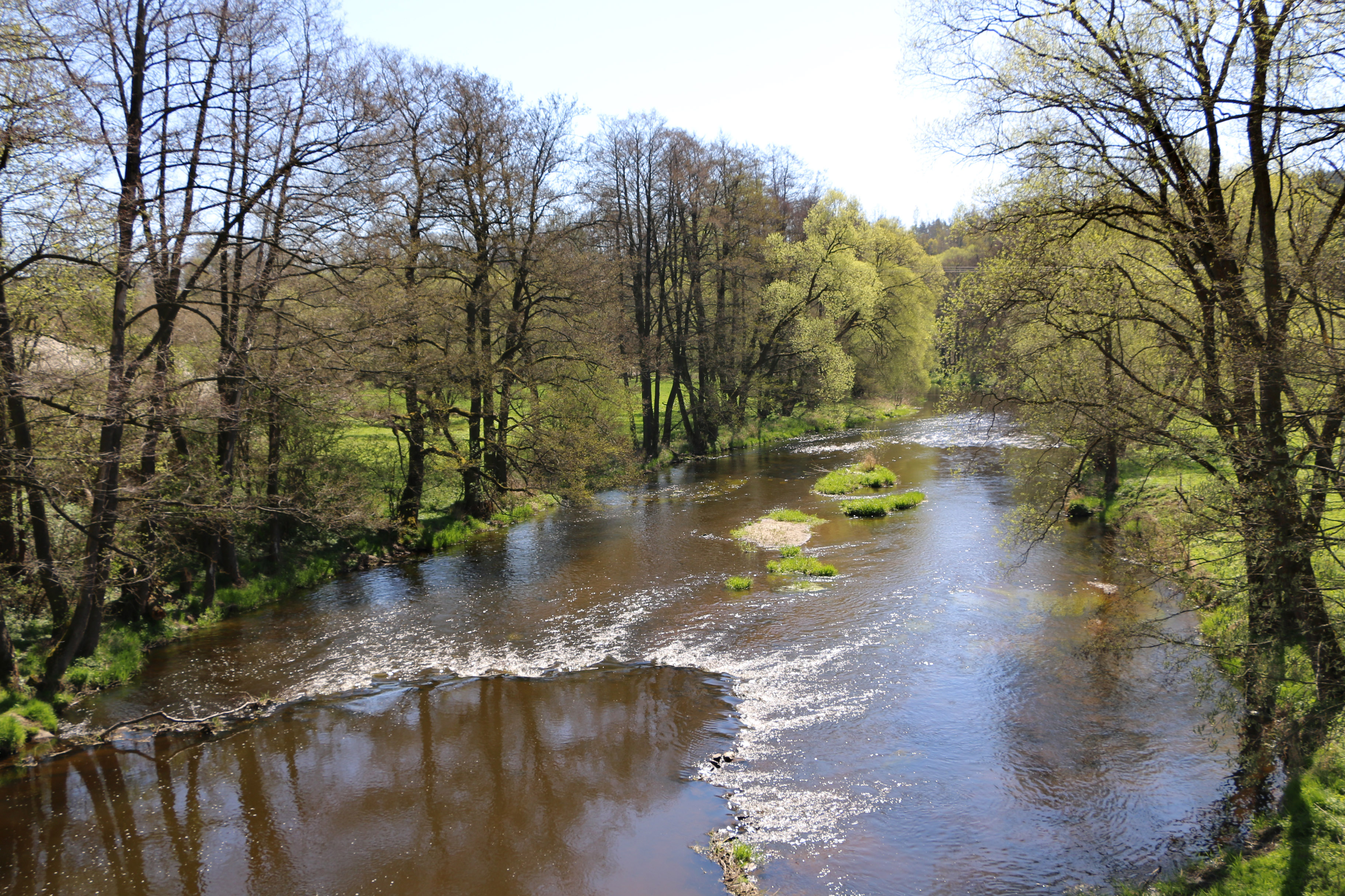 Mže river in Milíkov, part of Stříbro, Czech Republic.